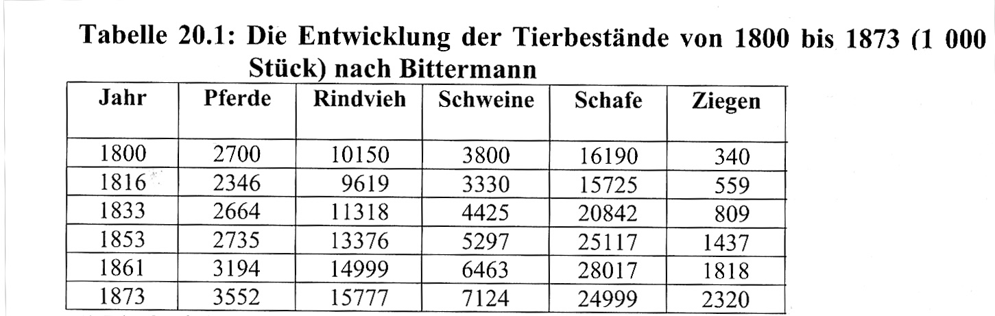 German cattle statistics